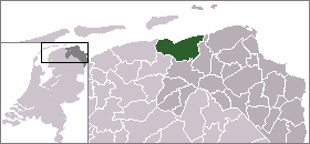 Locator map of Dutch municipalities in Groningen (LocatieDeMarne.png)